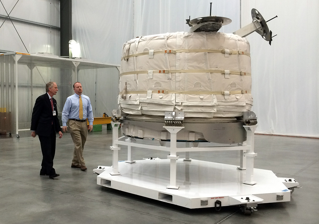 William Gerstenmaier, NASA’s associate administrator for human exploration and operations, and Jason Crusan, director of the agency's advanced exploration systems division, view the Bigelow Expandable Activity Module at Bigelow’s facility in Las Vegas on March 12.